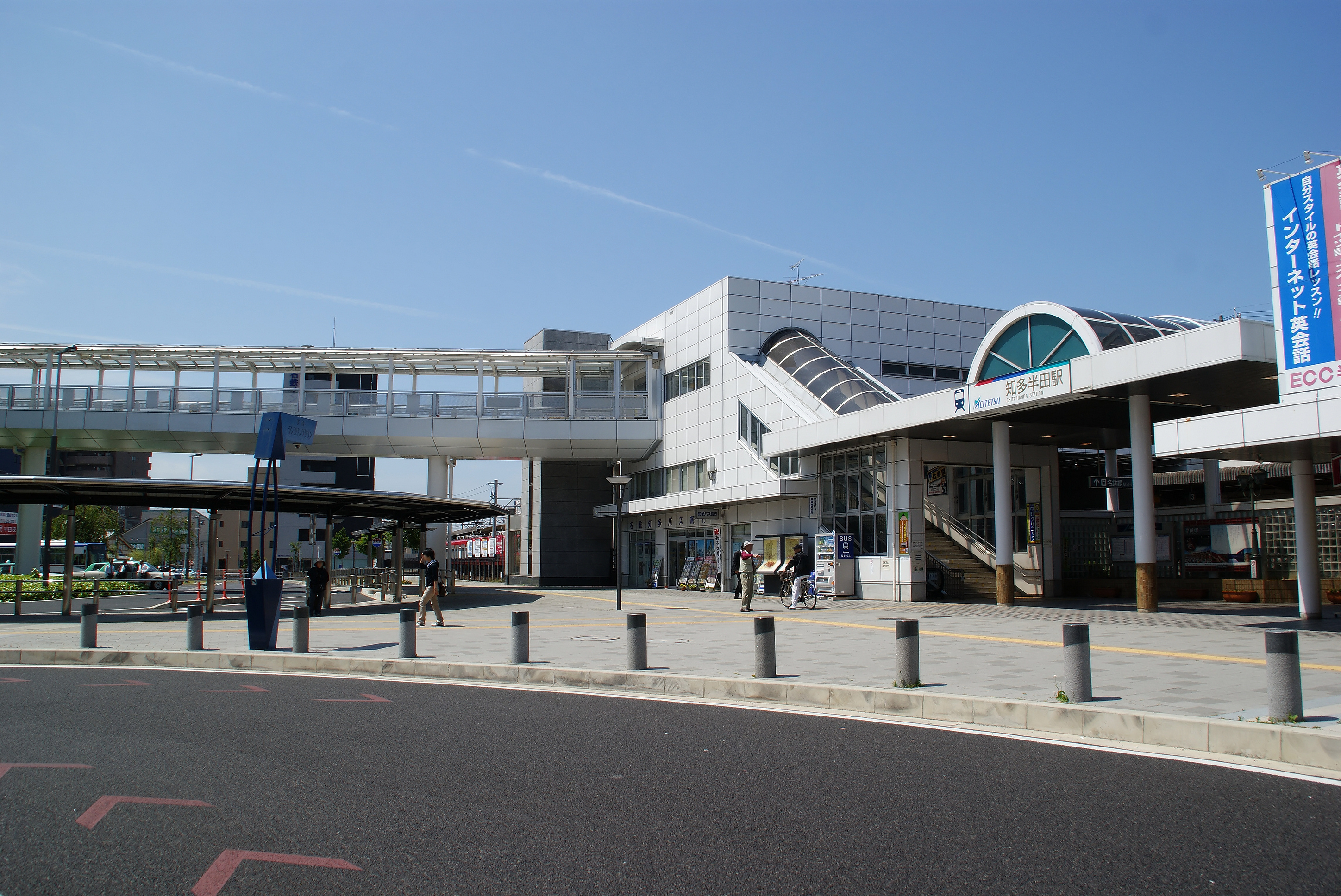 Nagoya Railroad, Chita-Handa Station.(Handa City, Aichi Prefecture, Japan)